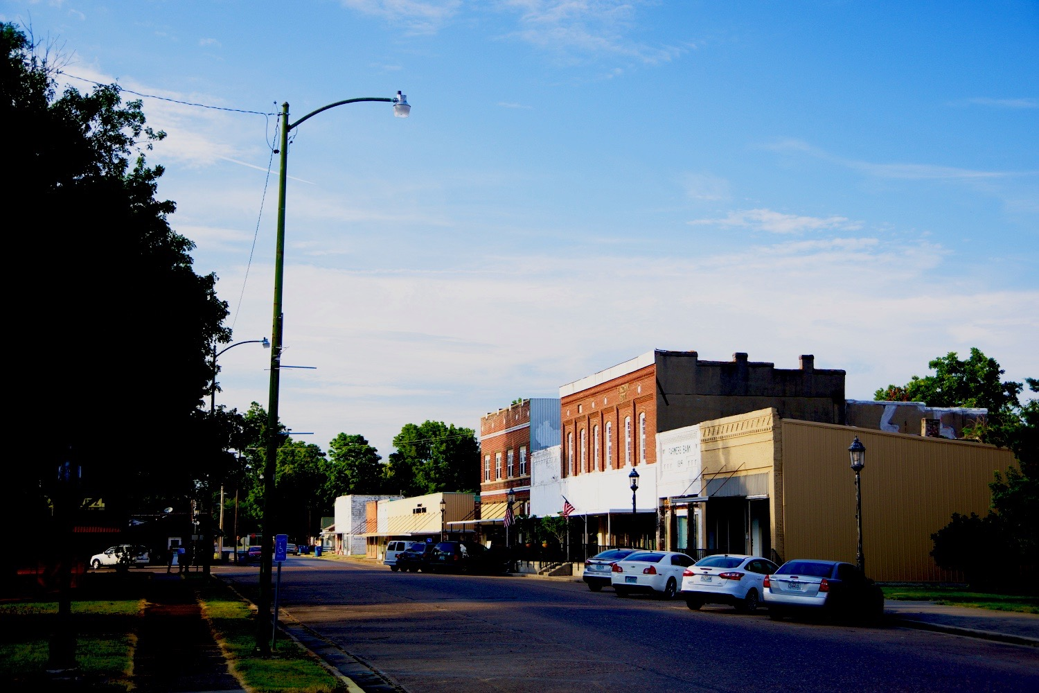 Buildings along 4th Street, on the eastern side of the town square, in Hayti, Missouri, United States.